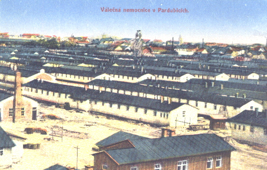 War hospital Pardubice 3